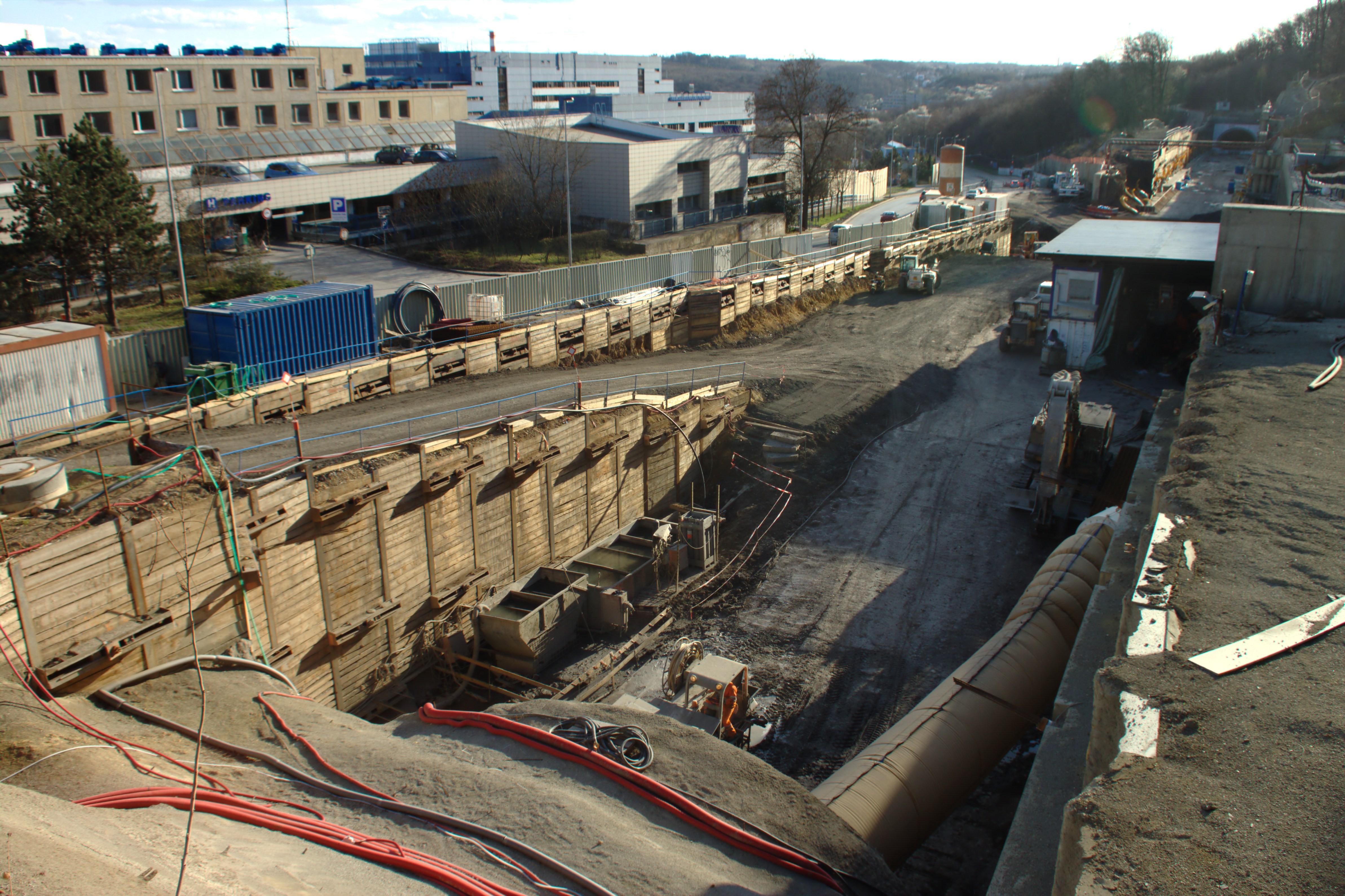 Motol metro station in Prague, CZ under construction in April 2012